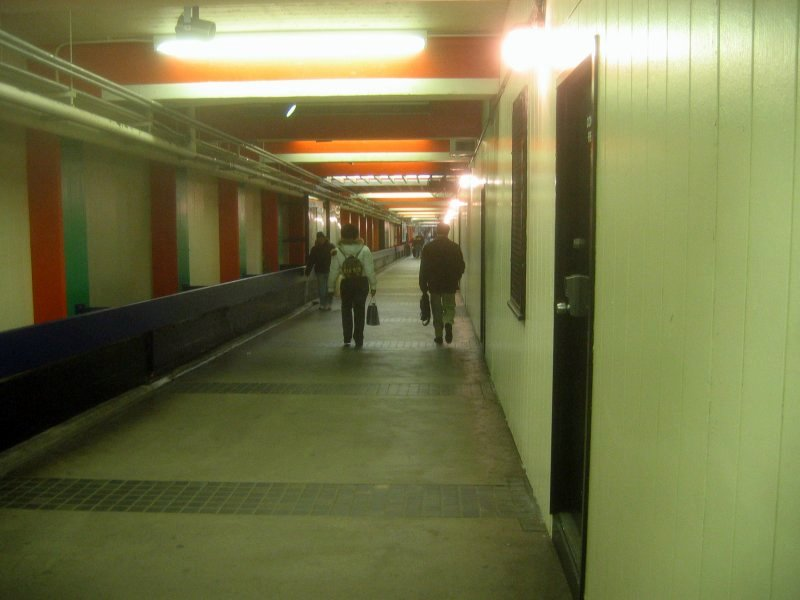 Winter Street Concourse facing Downtown Crossing in 2005